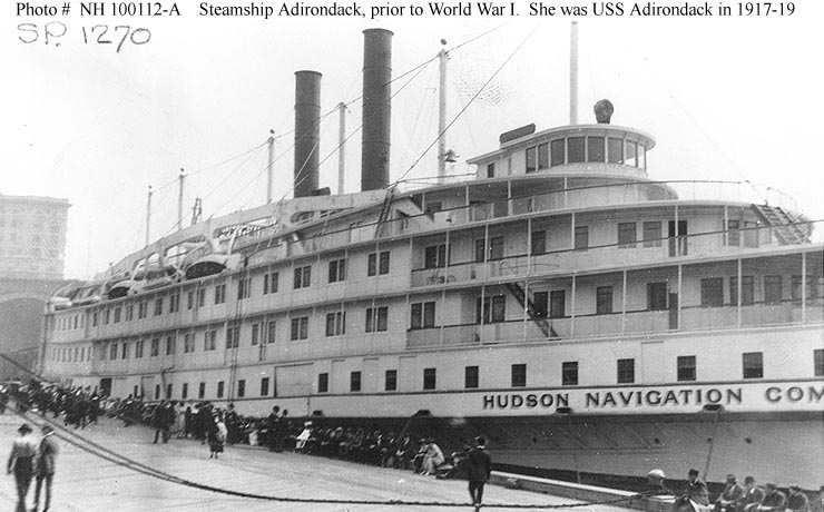 (It's an image, but same difference ;-)